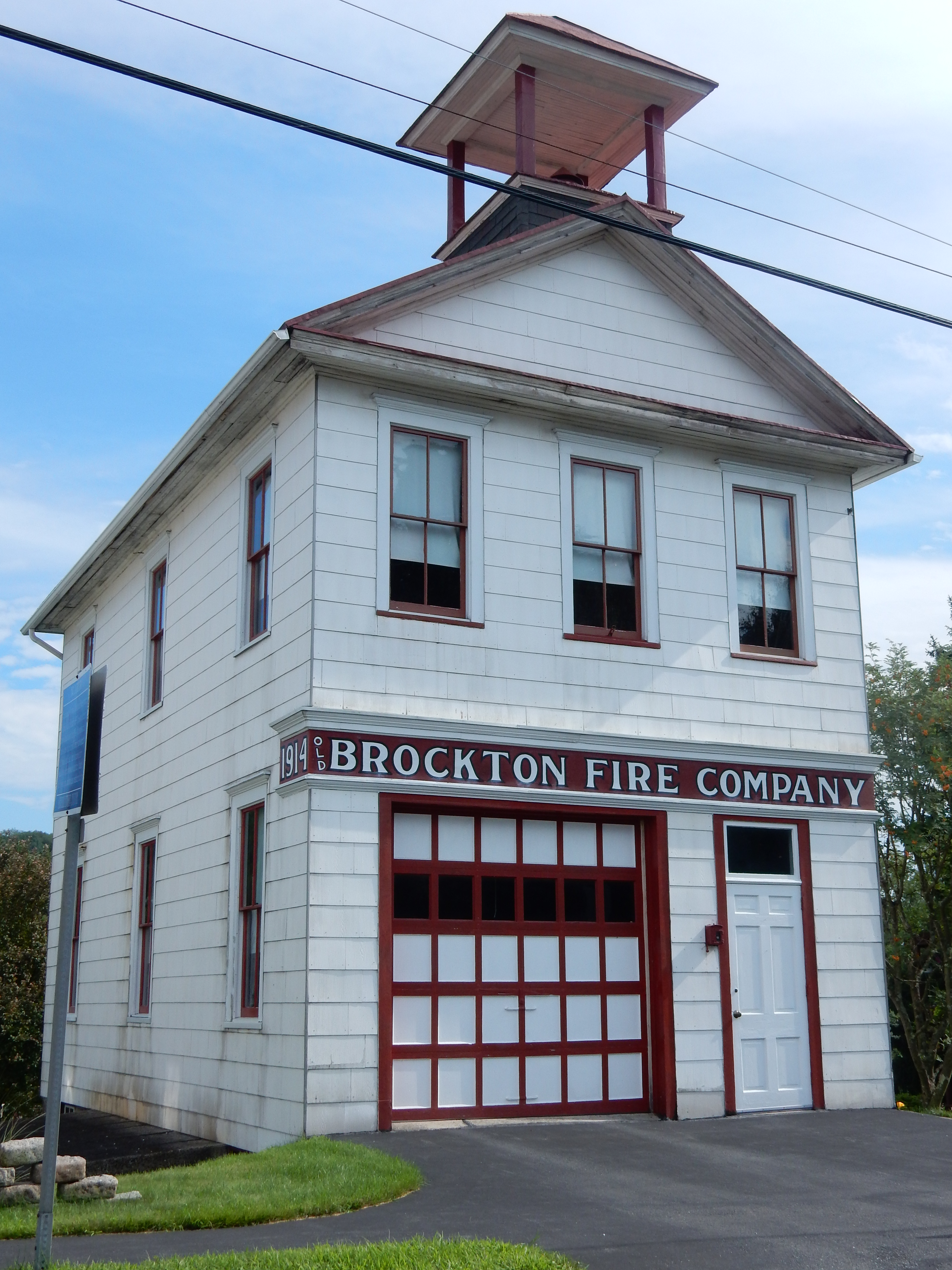 Old Brockton Fire Co., Valley St., Brockton, Schuylkill County, Pennsylvania. Est. 1914.